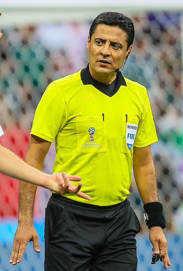 Alireza Faghani